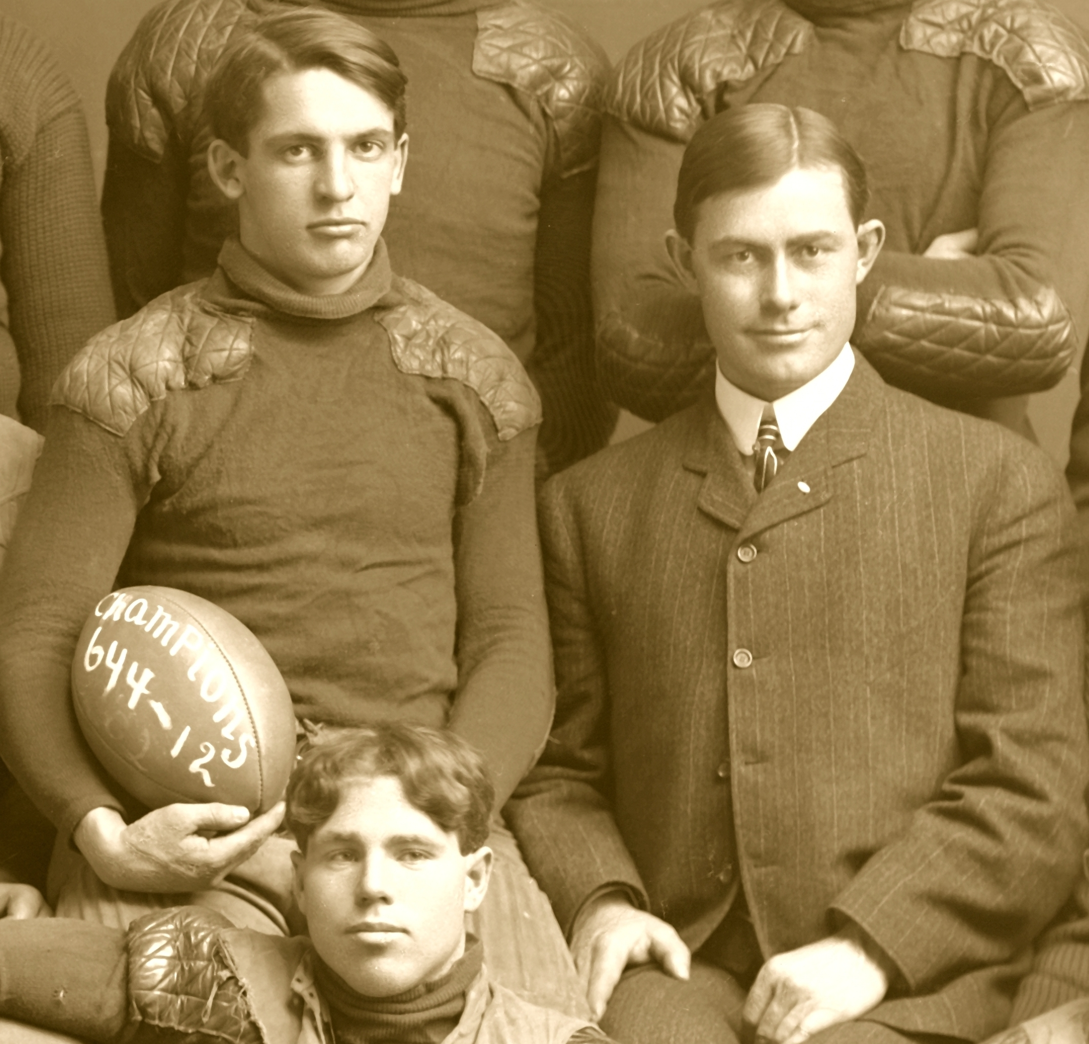 Photograph of Boss Weeks, Willie Heston and Fielding Yost